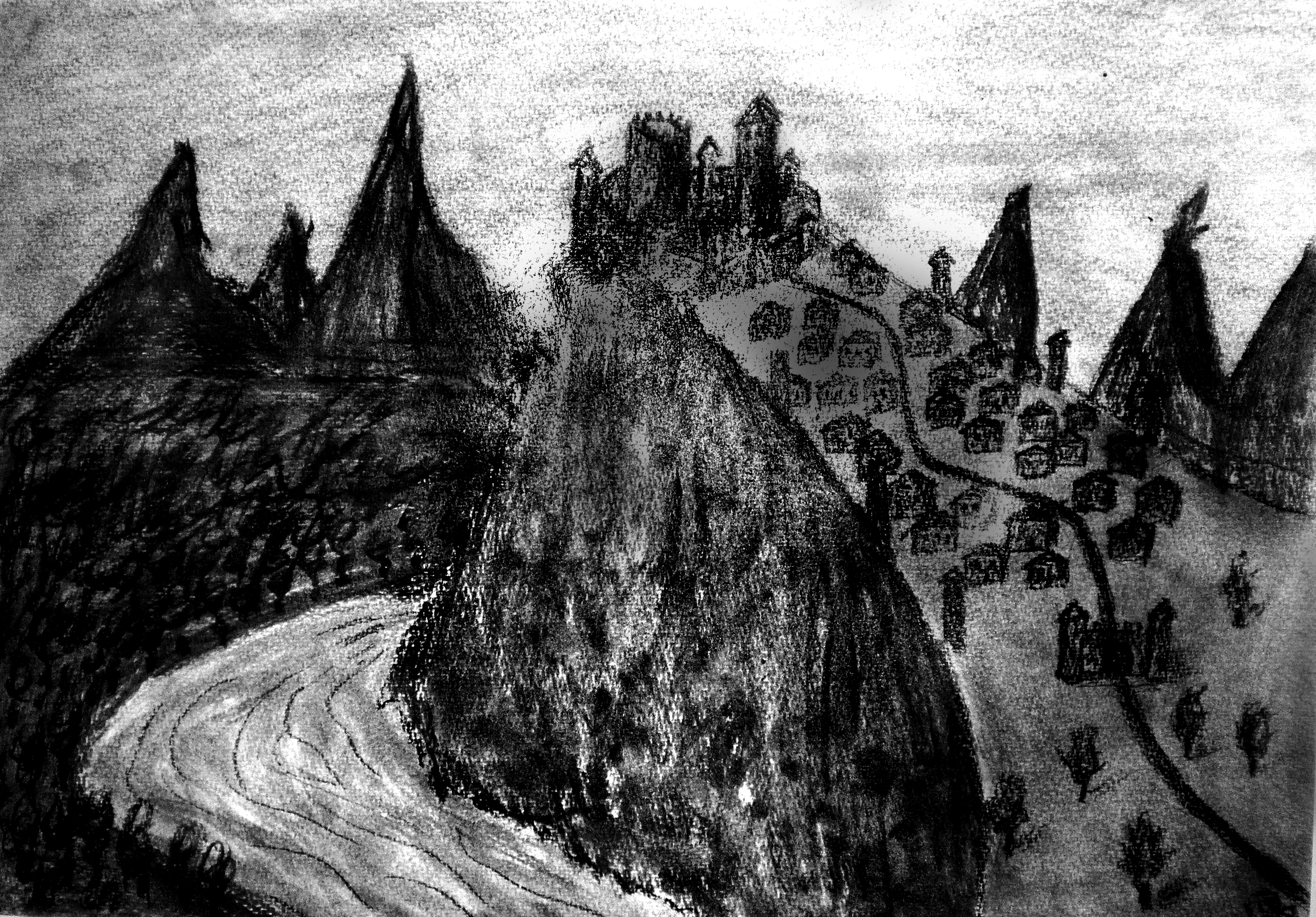 discworld town lancre terry pratchett